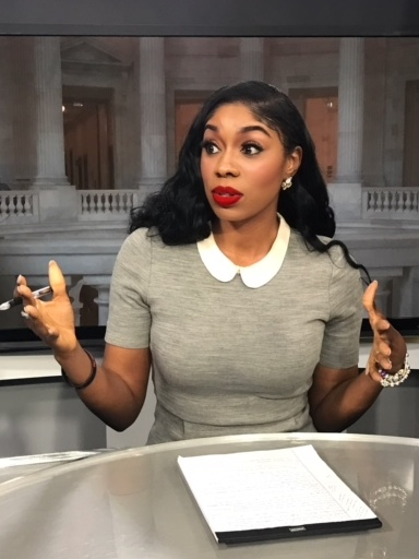 Wendy Osefo on set in the studio.